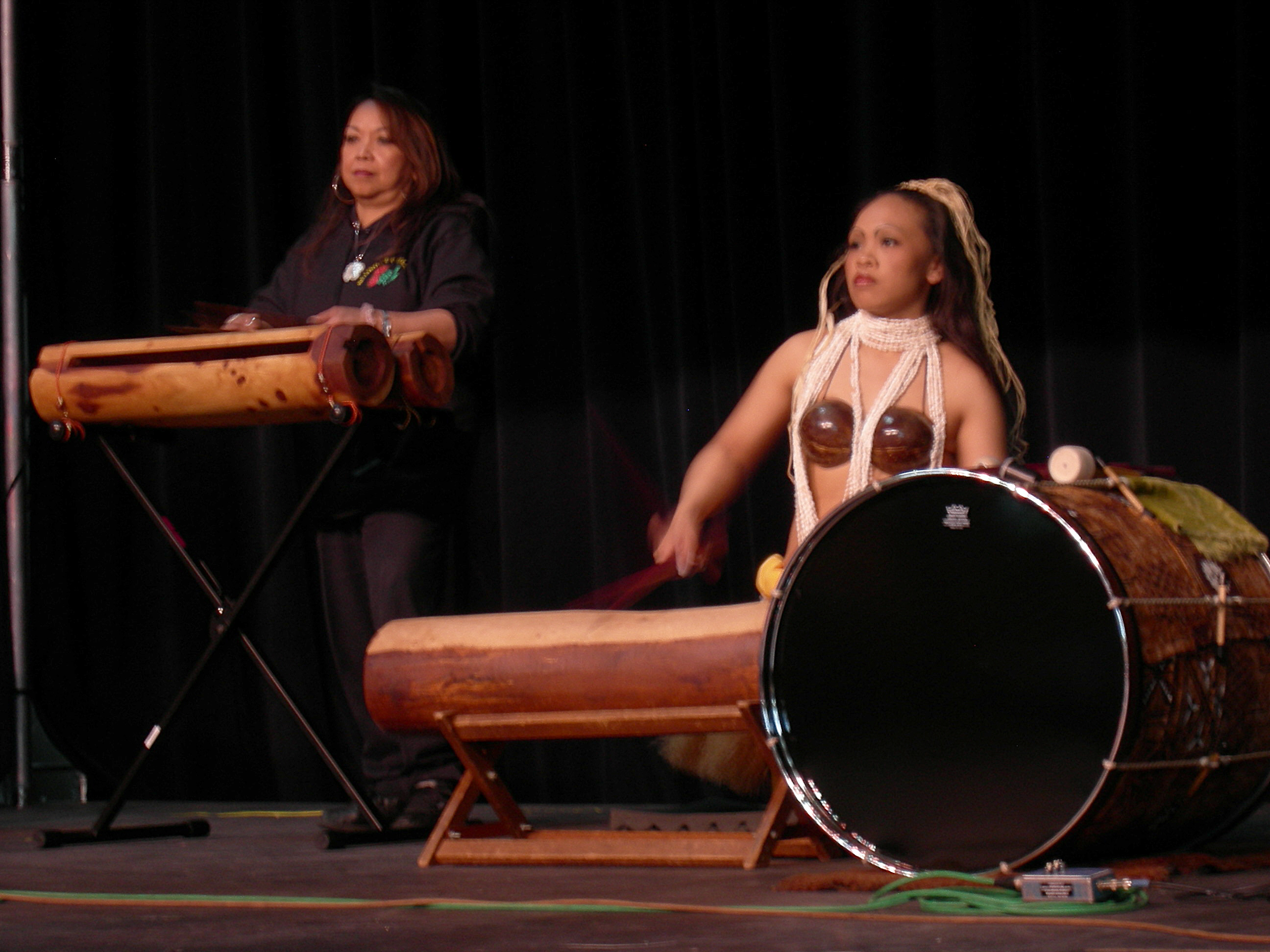 Musicians accompanying hula hālau Ke Liko A`e O Lei Lehua perform at Center House, Seattle Center, as part of Festál's API (Asian Pacific Islander) Heritage Month Festival. The pictures of this event have generally undergone slight enhancement (sharpening, color adjustments) with Picture Publisher.